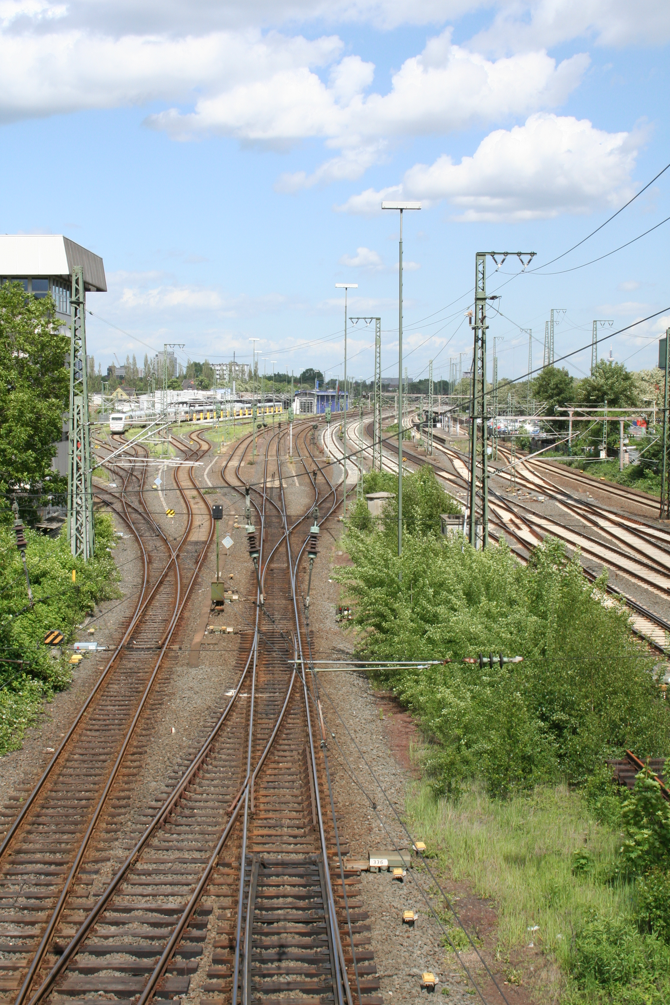 train station Farbwerke Hoechst AG